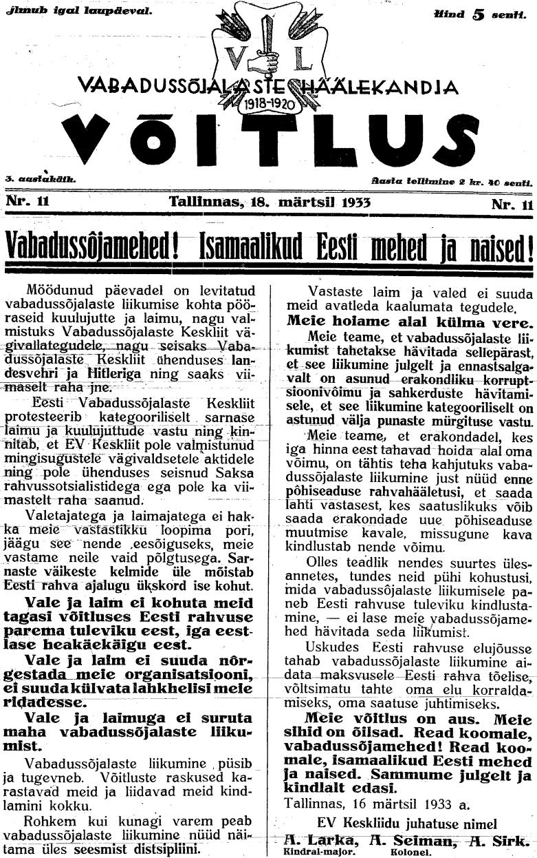 Scan of newspaper cover published in 1933.